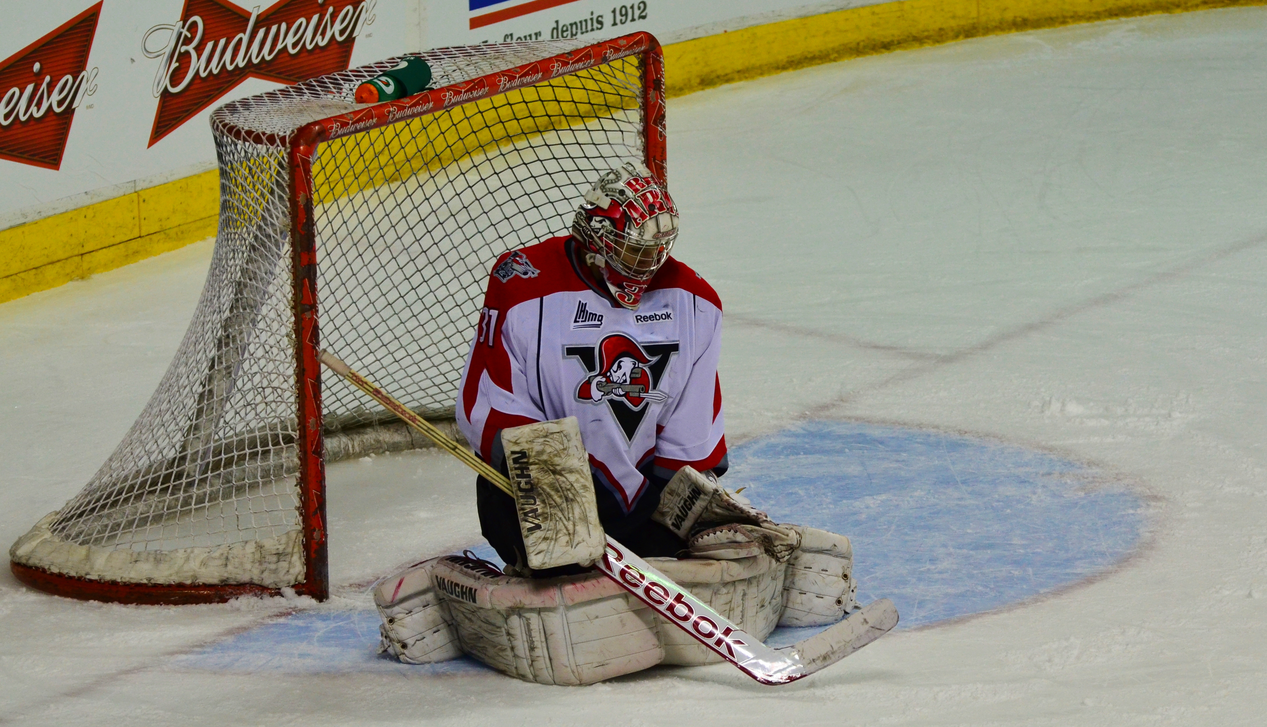 At the second game of the 2012 Québec Remparts-Drummondville Voltigeurs series.